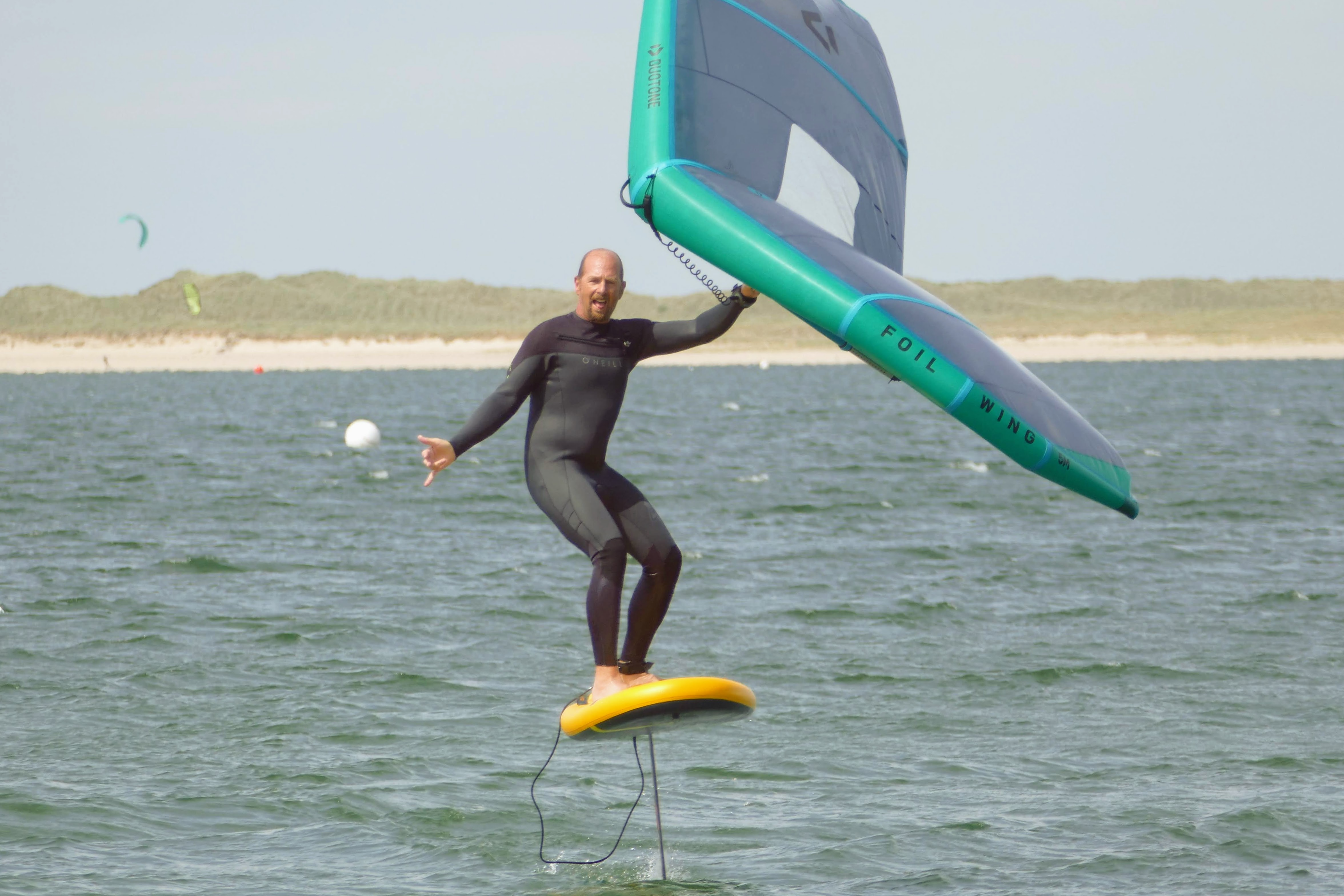 Wing foiling with a wing and an inflatable board mounted on a hydrofoil.For more free images visit